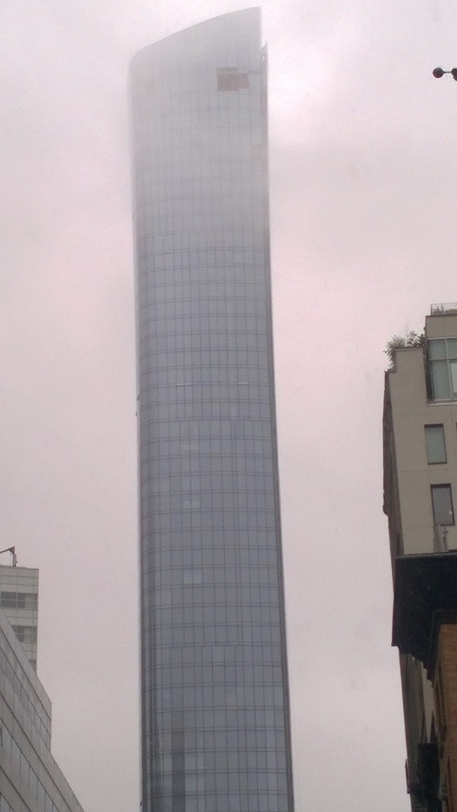 Exterior shot of 111 Murray on June 10, 2019 during a rain storm.